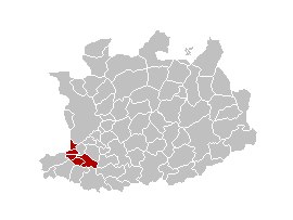 Rupelstreek, province Antwerp